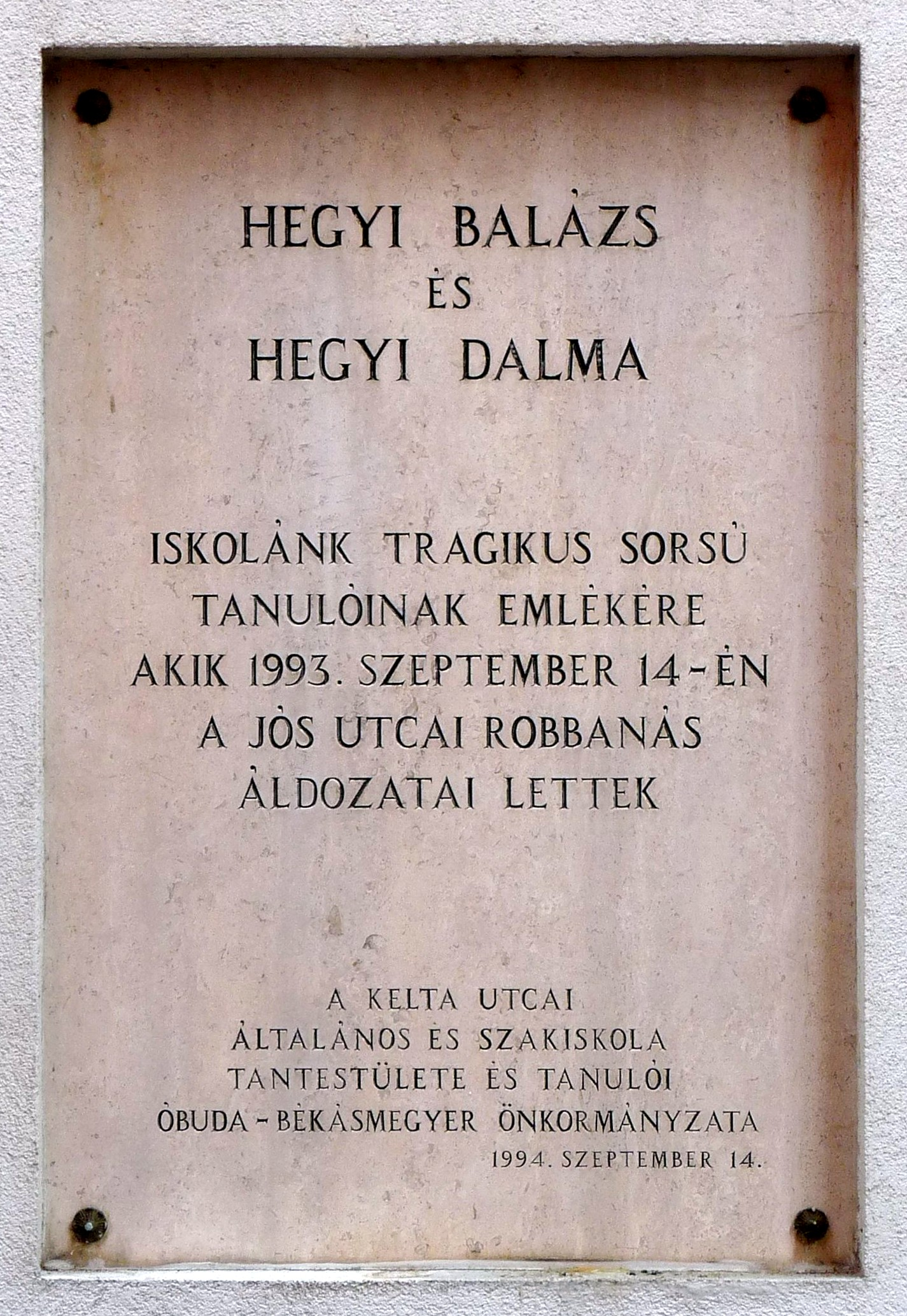 Commemorative plaque to Mr. Balázs Hegyi and Miss Dalma Hegyi (brother and sister) both victims of the tragic explosion that took place in their block houses September 14, 1993 (now: Milton Friedman University). (Budapest, District III, Kelta Street Nr 2)